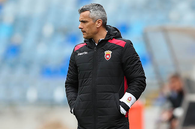 Líder técnico continua depois do notável trabalho realizado em 17/18